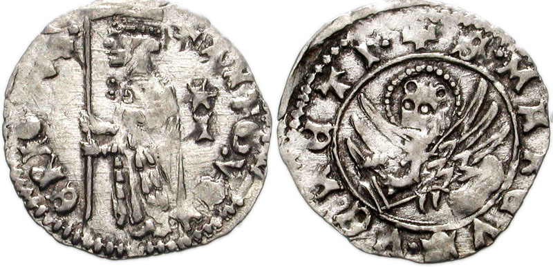 Italy, Venice. Antonio Venier. 1382-1400. AR Soldino (16mm, 0.43 g, 2h). Doge kneeling left holding banner, sigla I surmounted by star in right field Nimbate lion seated left, holding gospels, all within a circular boder. CNI VII 24; Papadopoli 5; Paolucci 5. Good VF.